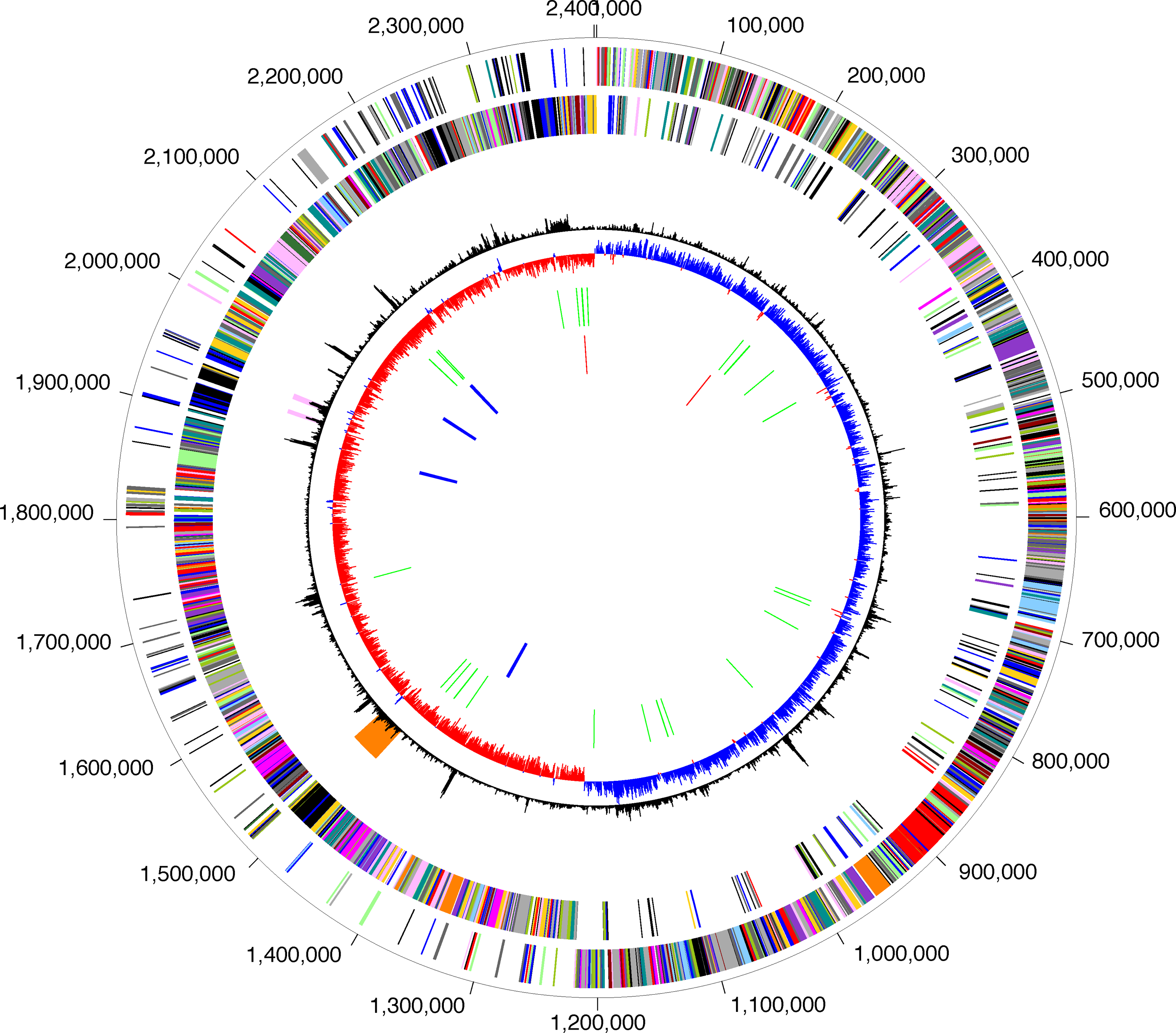 Genomic Organization of C. hydrogenoformans. From the outside inward the circles show: (1, 2) predicted protein-coding regions on the plus and minus strands (colors were assigned according to the color code of functional classes; (3) prophage (orange) and CRISPR (pink) regions; (4) χ2-square score of tri-nucleotide composition; (5) GC skew (blue indicates a positive value and red a negative value); (6) tRNAs (green); (7) rRNAs (blue) and structural RNAs (red).